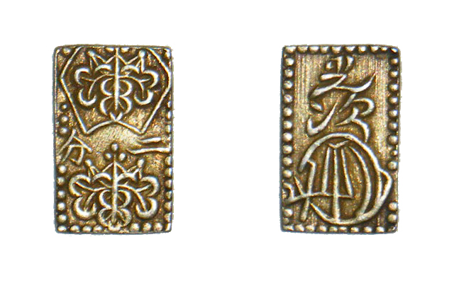 Counterfeit 2buban